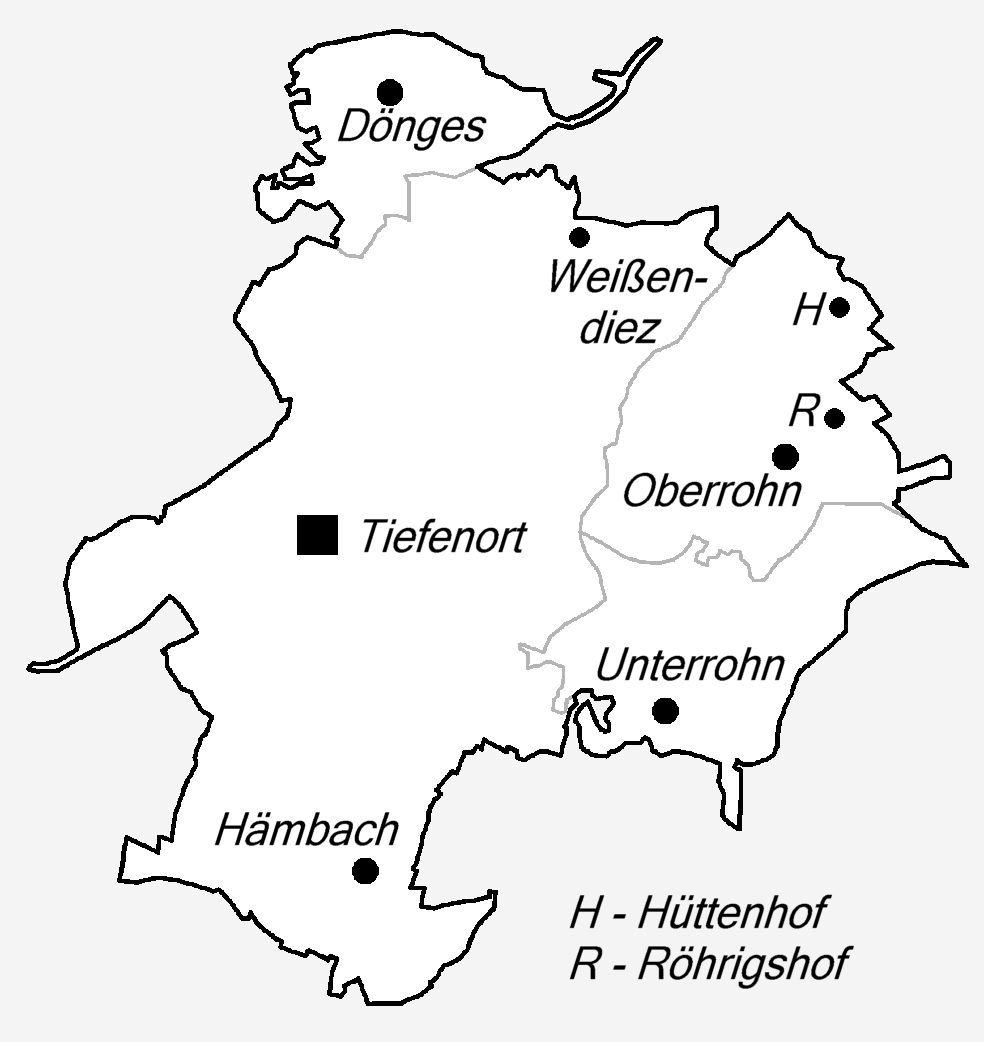 District-Maps of Tiefenort.